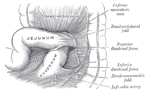 Superior and inferior duodenal fossæ. (Poirier and Charpy.)